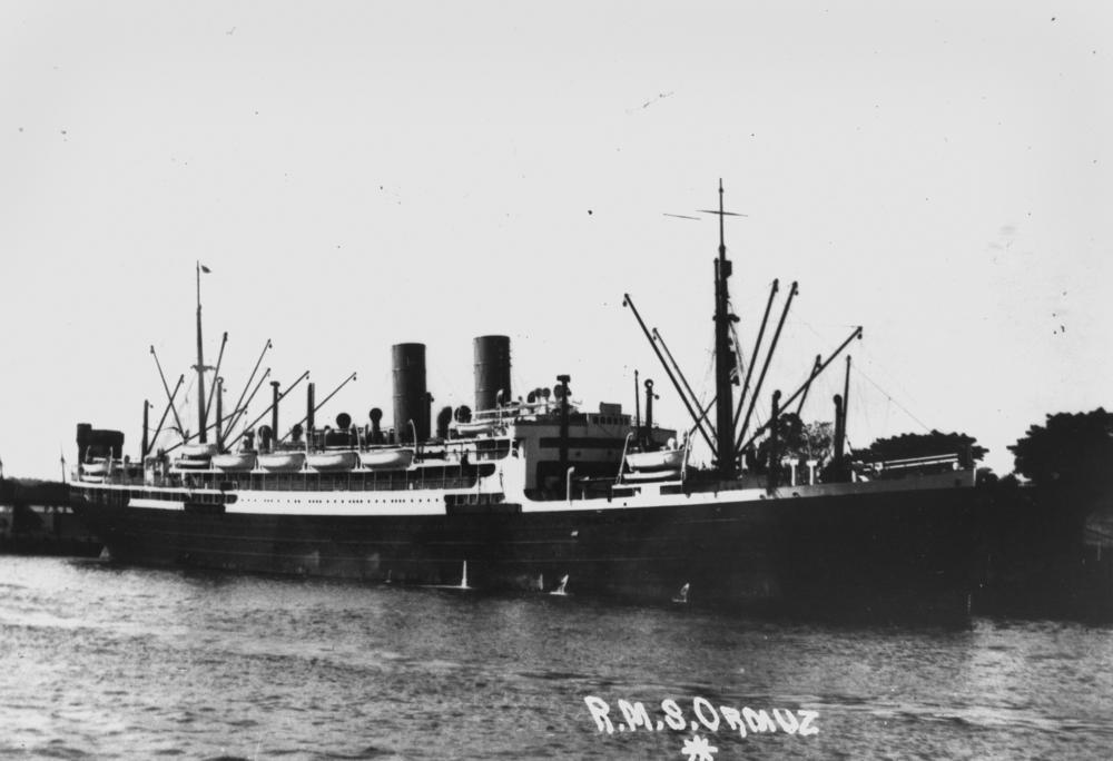 Ormuz (ship)